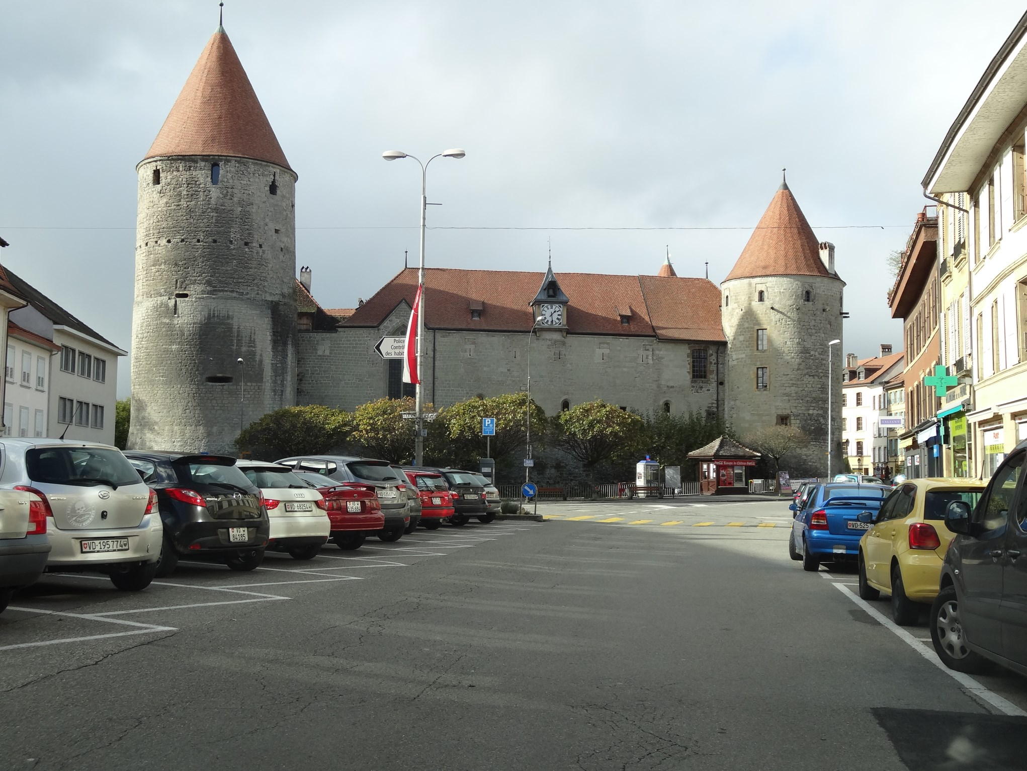 Yverdon-les-Bains